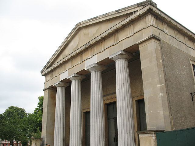 St Matthew's church, Brixton - portico, near to Brixton, Lambeth, Great Britain. The west end of the parish church TQ3075 : St Matthew's church, Brixton in classical style (the detailed listed building description calls it "tetrastyle in antis with fluted Doric columns")